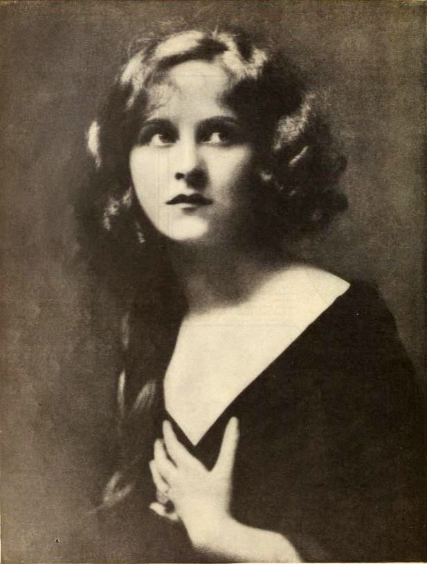 Actress Hope Hampton on page 42 of the November 1921 Photoplay.